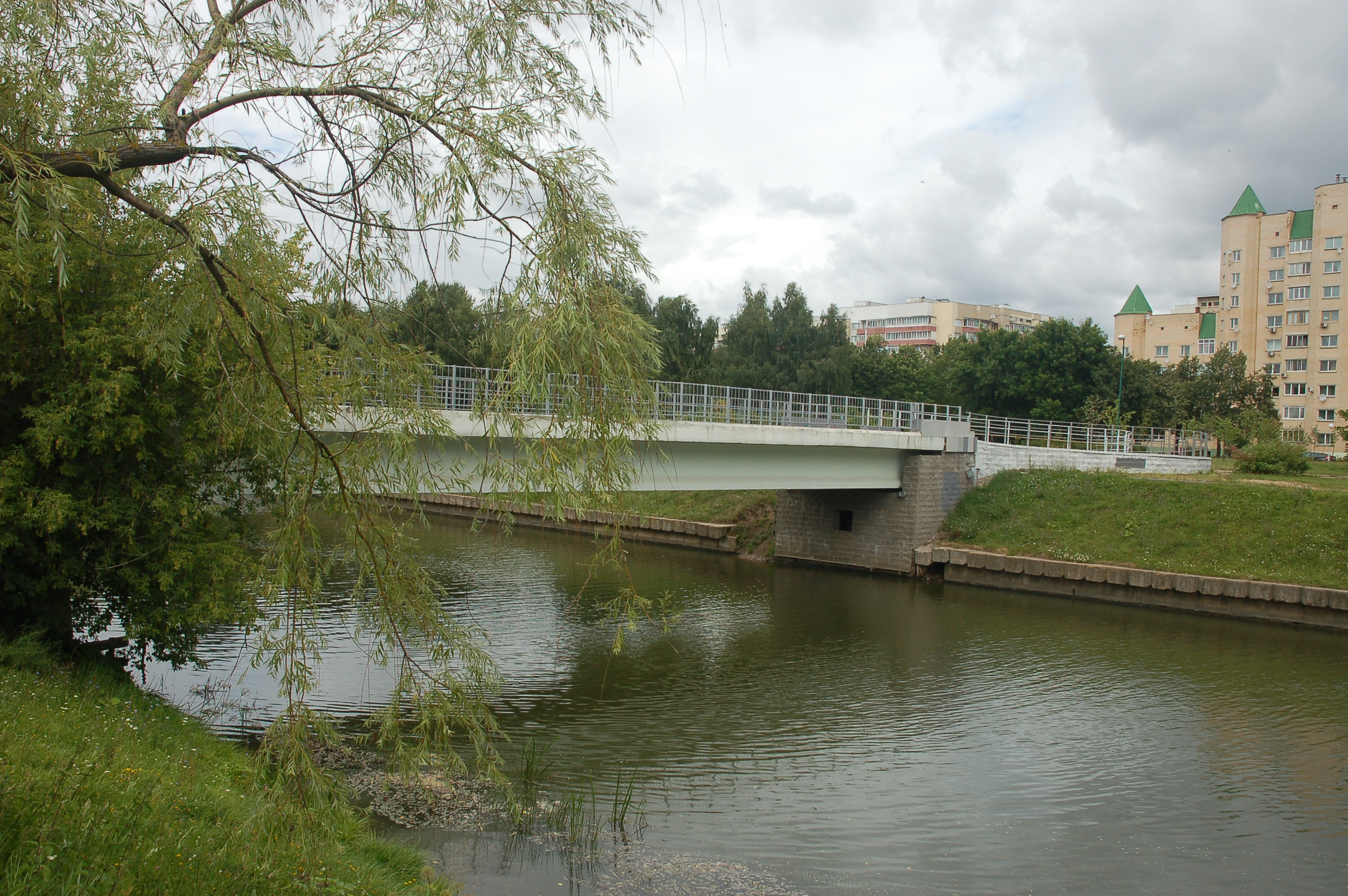 Bridge on the Svislach River, Minsk